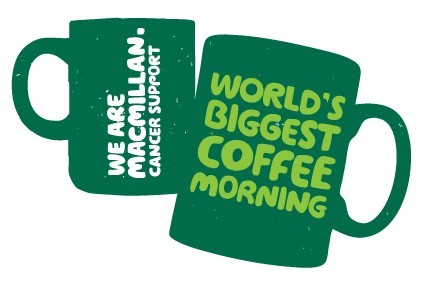 World's Biggest Coffee Morning Logo